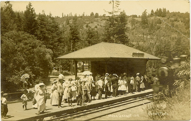 Postcard picture of Mesa Grande railroad station, about 1910. Store Web page states: "Original, circa 1910 Real Photo postcard of Mesa Grande in Sonoma County. An alert ebayer informed that Mesa Grande was renamed Villa Grande in 1921. Caption at bottom of card reads Mesa Grande - Lowry Photo'."